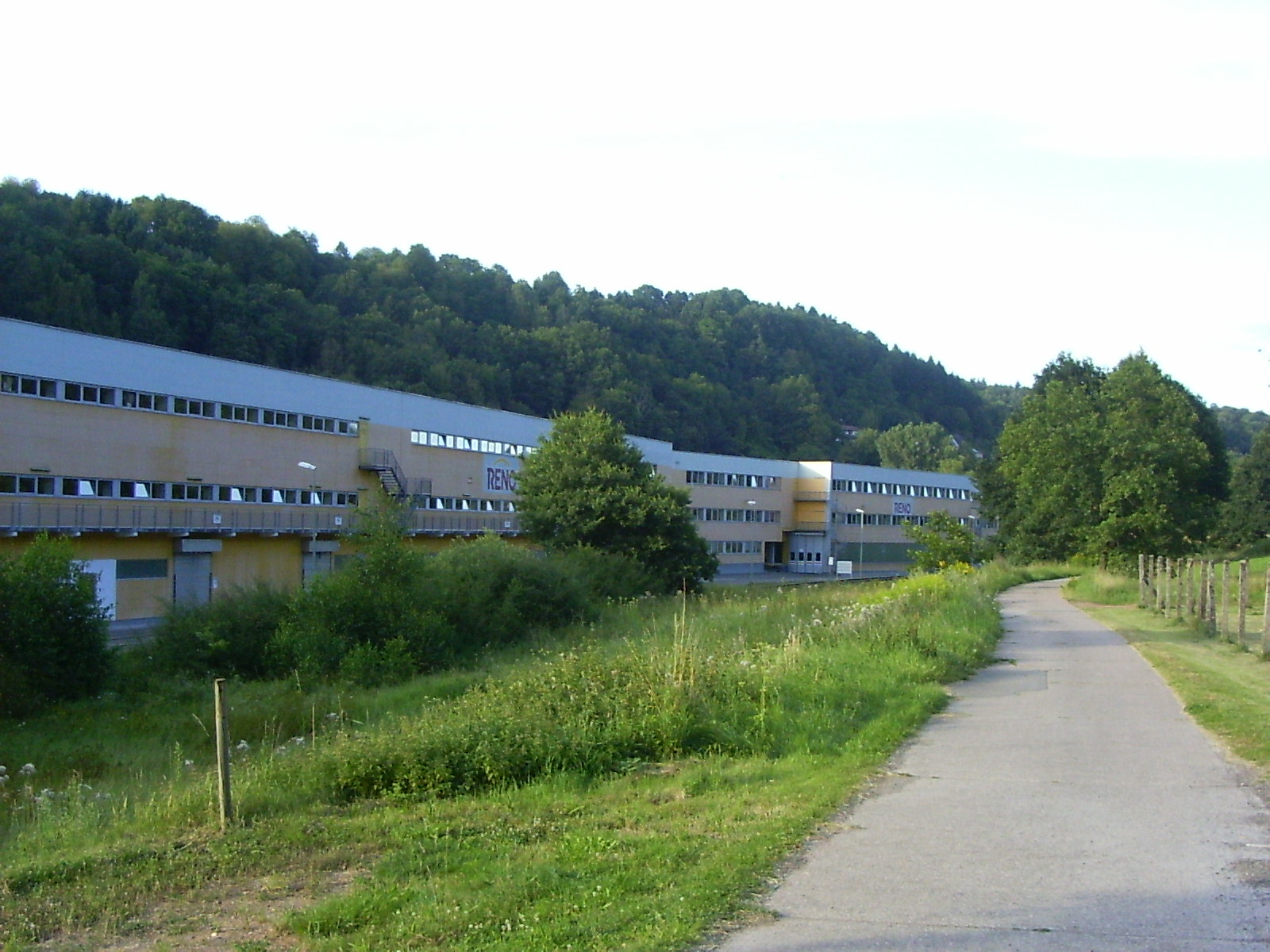 Reno warehouse Thaleischweiler-Fröschen. The railway line and the bikepath run parallel to the building.